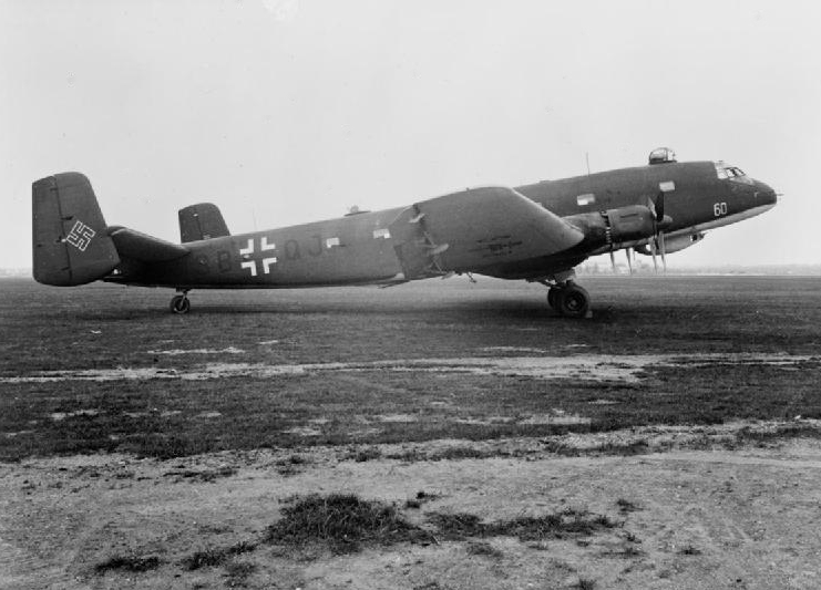 A German Luftwaffe Junkers Ju 290 A-3 (Wk.Nr.10160, SB+QJ) maritime reconnaissance aircraft used by FAGr 5 (later 9V+BH, 9V+AK). This aircraft was in service from July 1943 to April 1945.